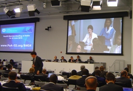 Dr. Widad Akreyi in 2010, UN headquarters in NY. Photo taken by Defend International.